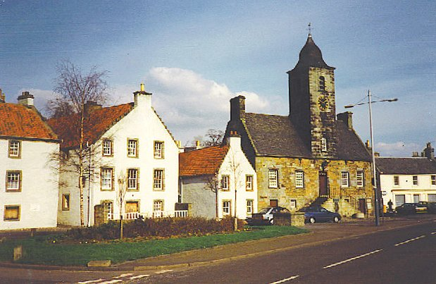 Culross, Town House.